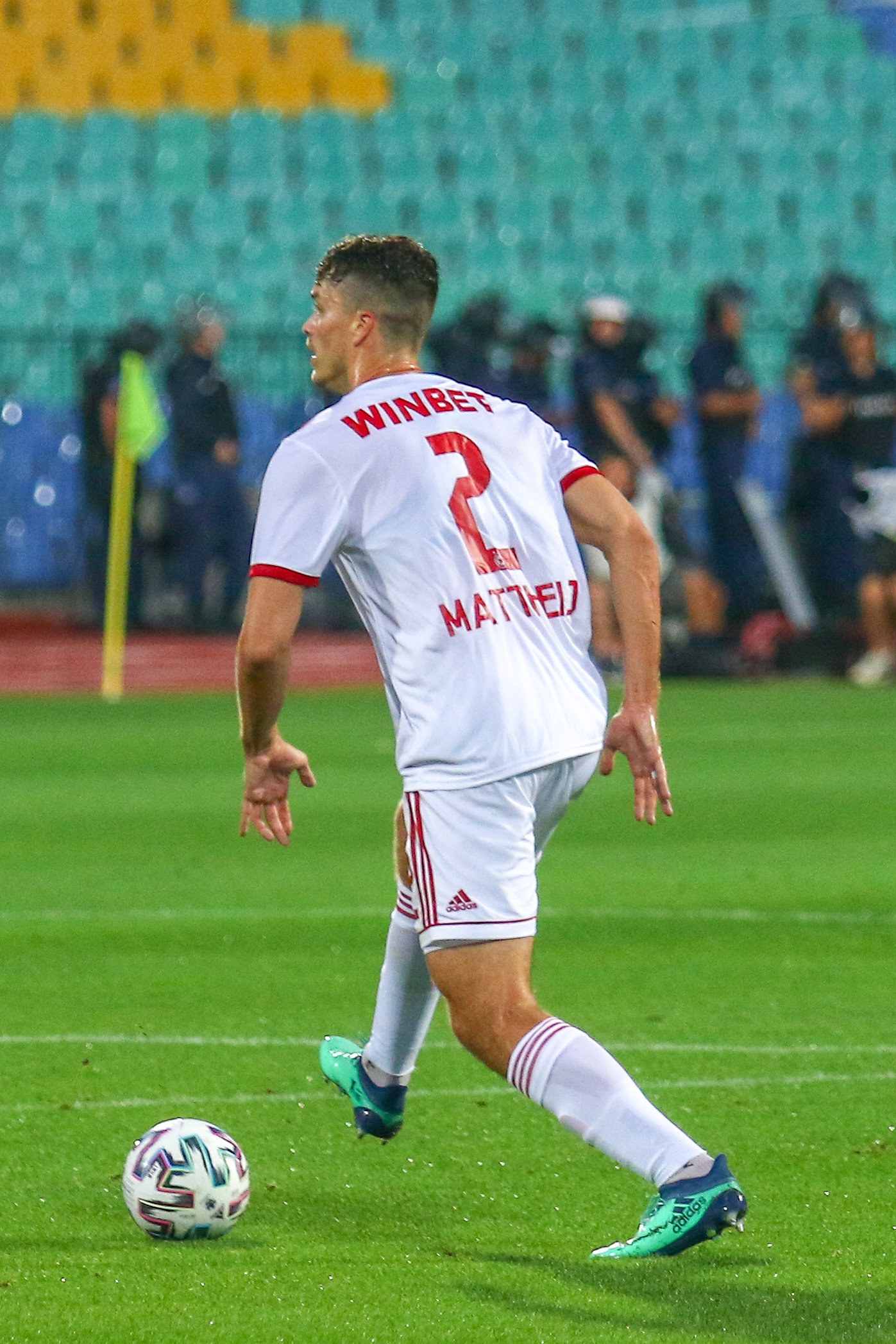 Jurgen Mattheij (born 1 April 1993 in Rotterdam) is a Dutch professional footballer who plays as a centre back for Bulgarian club CSKA Sofia.